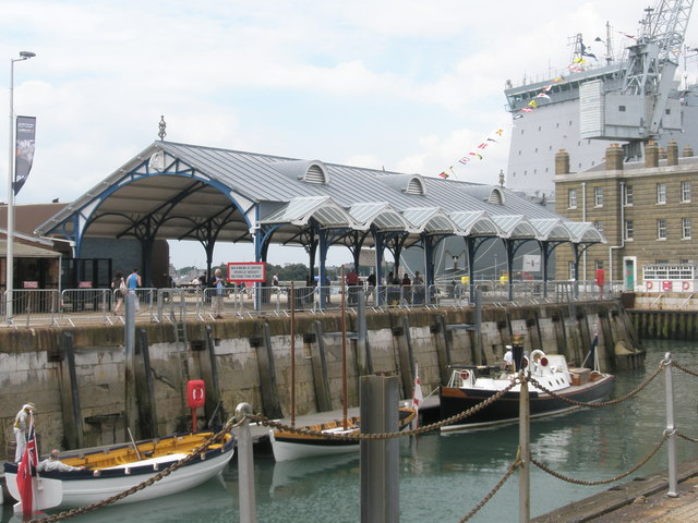 Impressively restored shelter within Portsmouth Dockyard